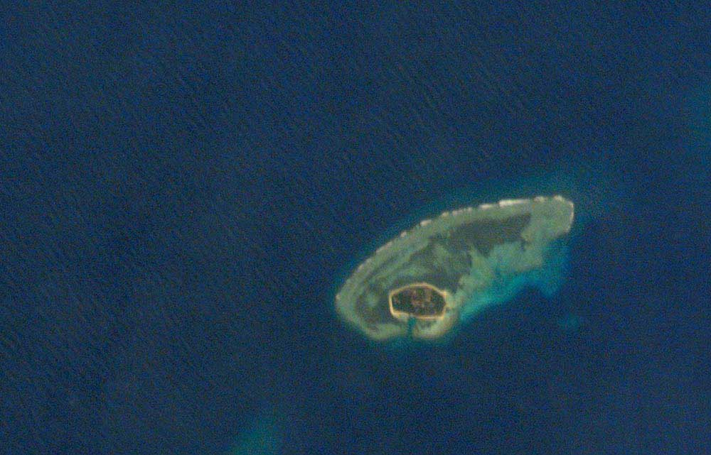 Pattle Island, Paracel Islands. Photo number: ISS004-E-7150. Image courtesy of the Image Science & Analysis Laboratory, NASA Johnson Space Center